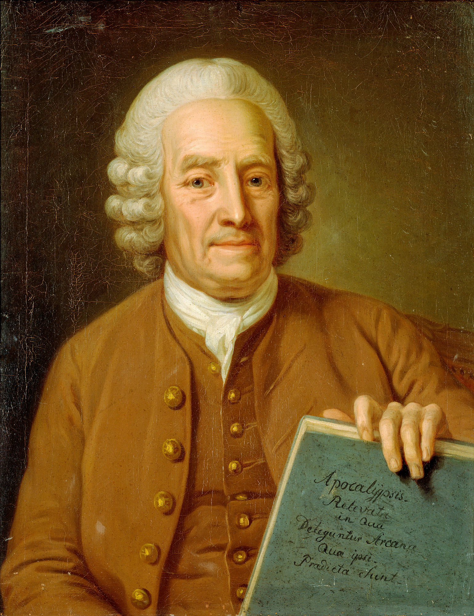 Swedenborg at the age of 75, holding the soon to be published manuscript of Apocalypsis Revelata (1766)